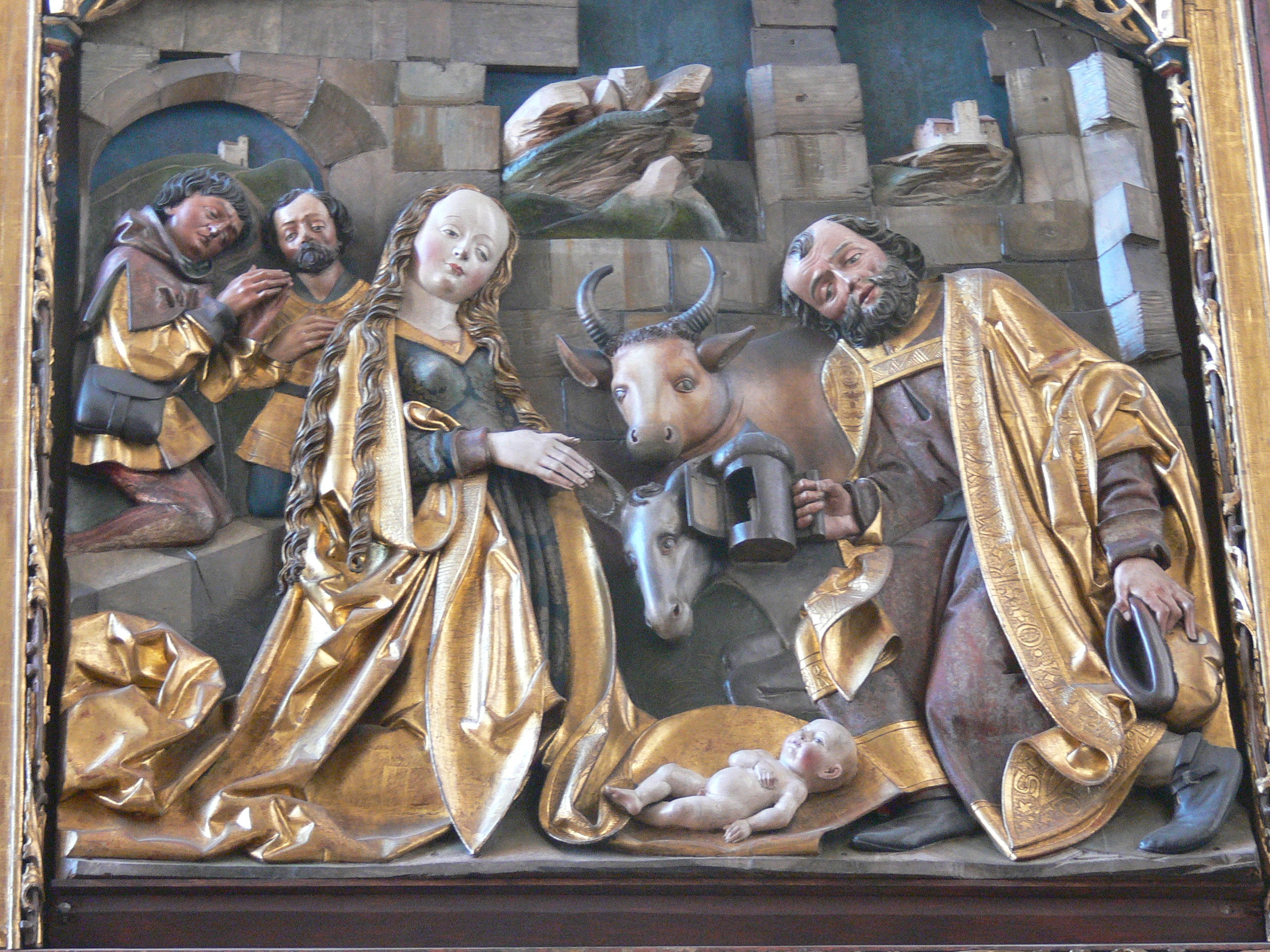 Schwabach - City church. High altar: Nativity